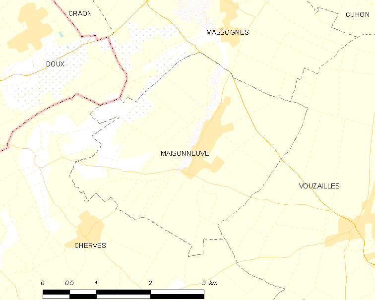 Map of French municipality Maisonneuve